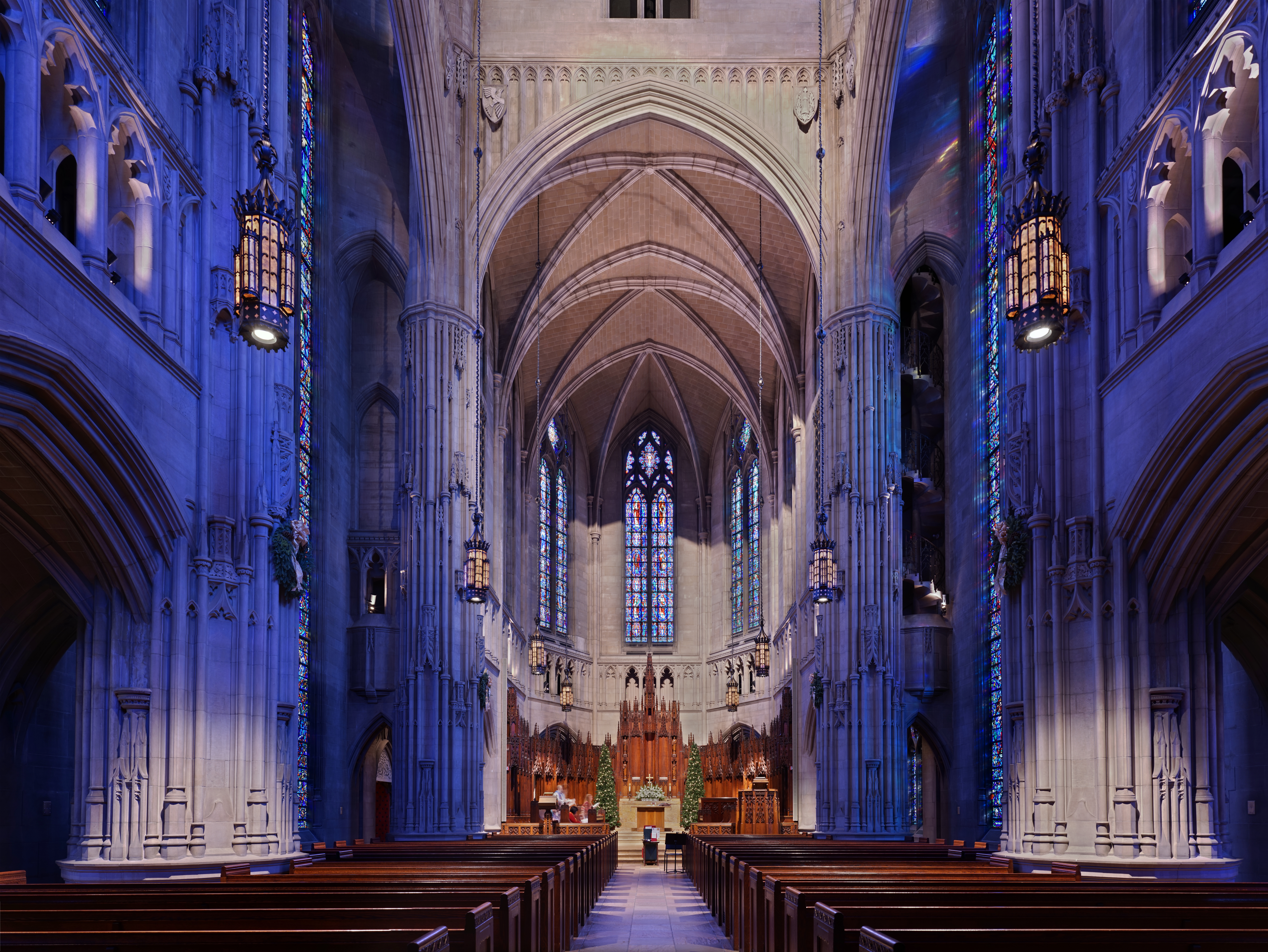 Interior of the Heinz Memorial Chapel, a historic landmark in Pittsburgh.